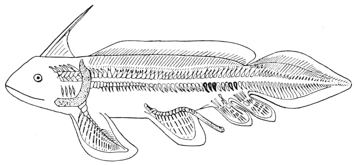 Pleuracanthus decheni restored (in the source the picture caption is Pleurocanthus decheni, but it's an obvious mistake)